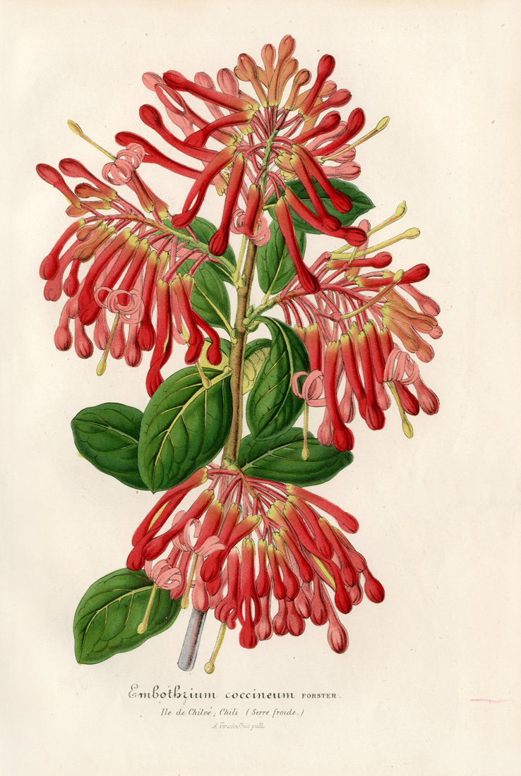 Plate depicting Embothrium coccineum